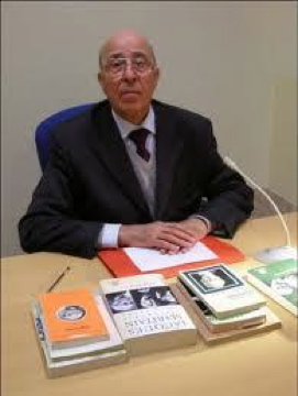 Piero Viotto